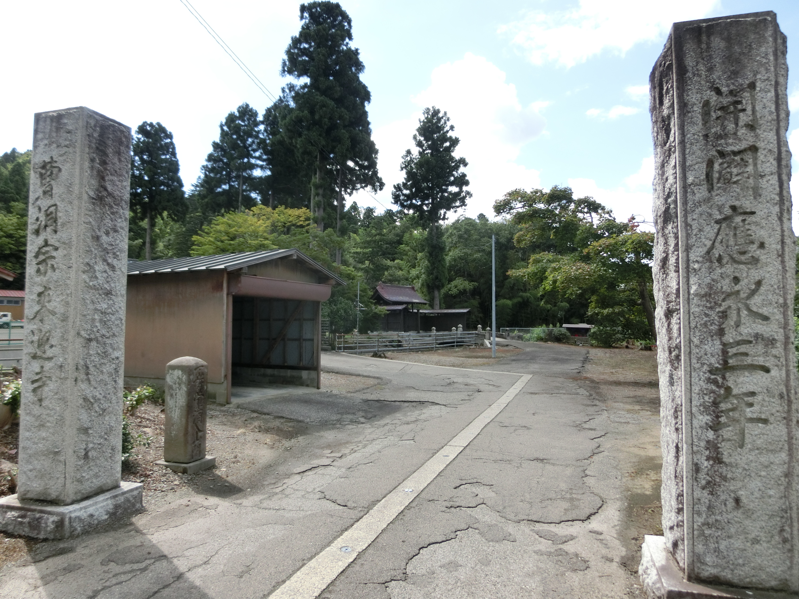 Raiko-ji (Shibata, Niigata)